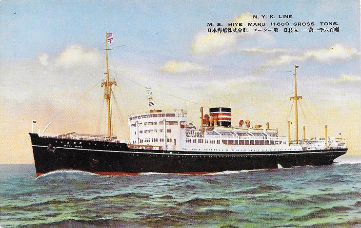 Postcard of the NYK Line ship HieMaru, 1930s